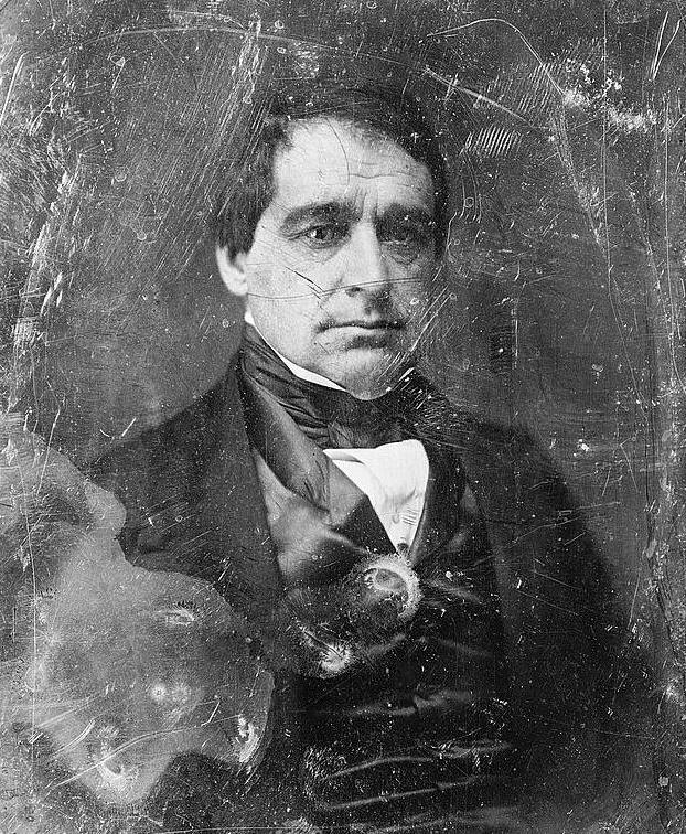 Daguerreotype of Hannibal Hamlin in his 30s or 40s.